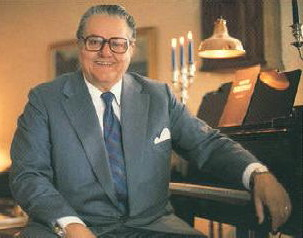 Poul Bundgaard (b.1922-d.1998): Danish actor and opera vocalist.